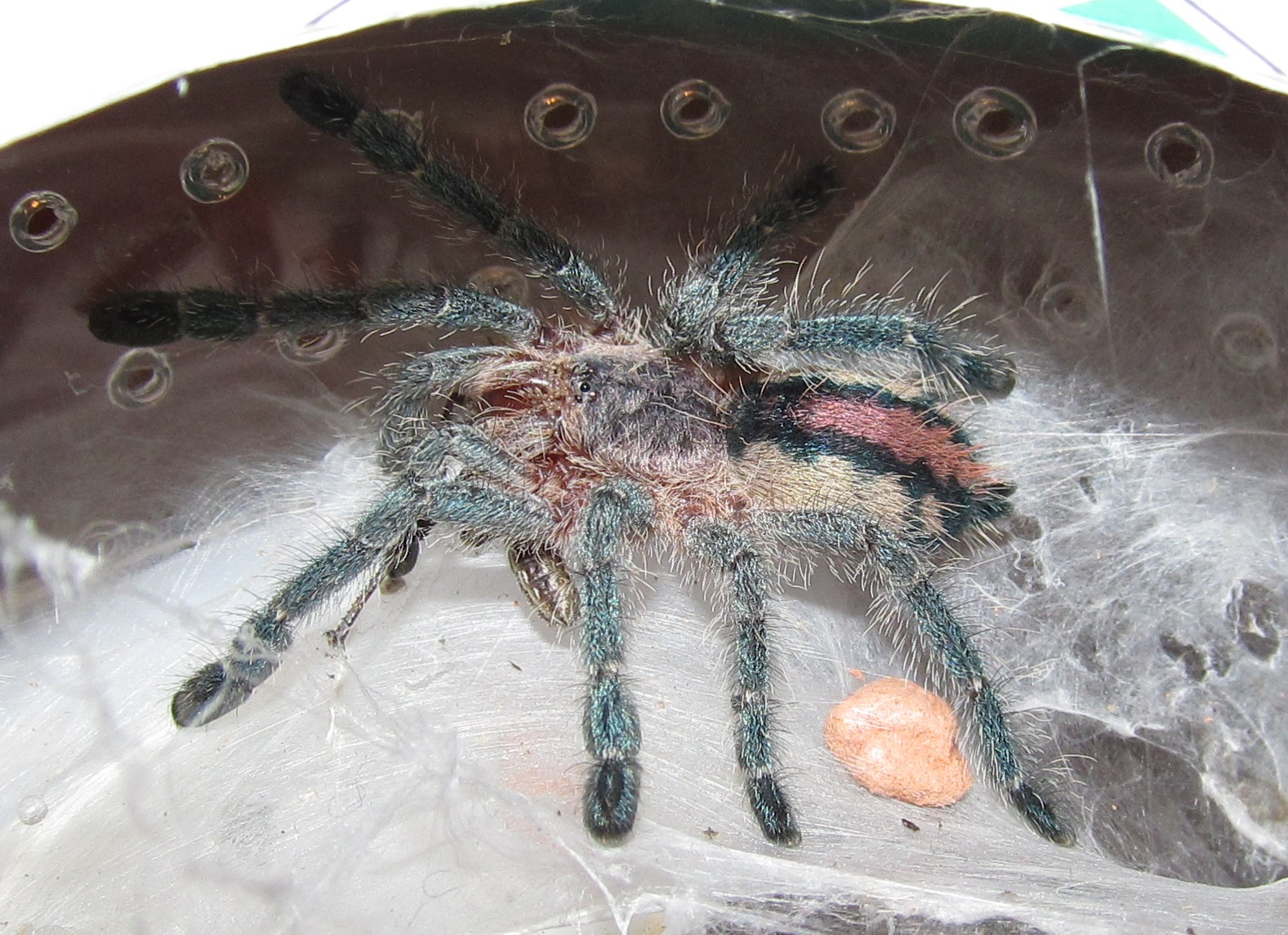 Ybyrapora sooretama syn. Avicularia sooretama, juvenile. Ca. 0.5 Inch long.